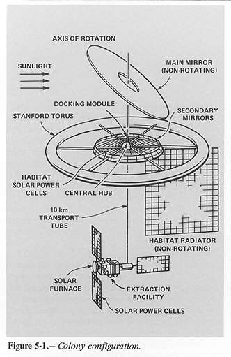 Figure5.1, stanford torus configuration, Johnson, Holbrow (1977). Space Settlements: A Design Study. Nasa